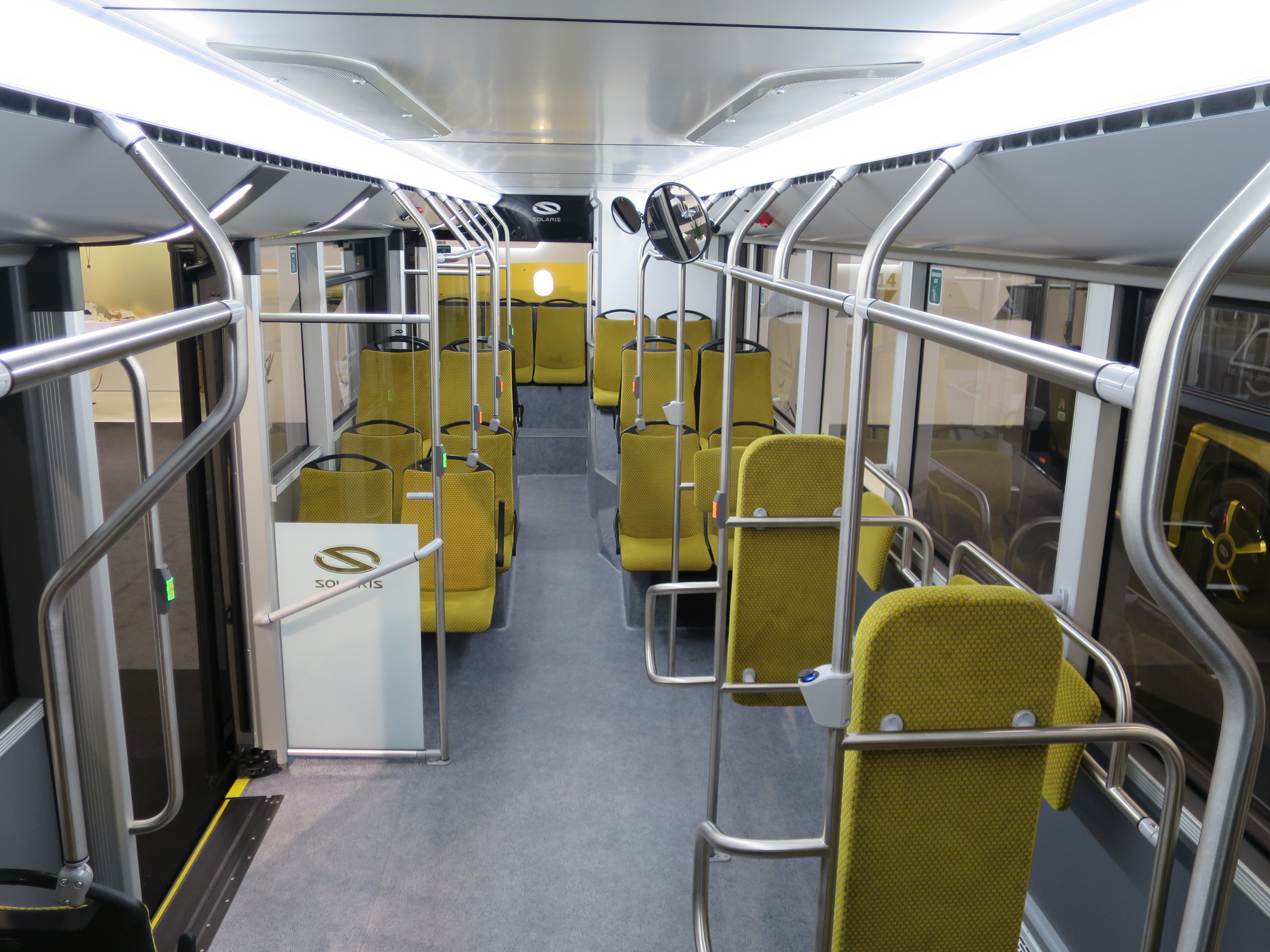 The making of this document was supported by Wikimedia Polska Association, within Wikigrant no. WG 2016-35. Solaris Urbino 12 Hybrid